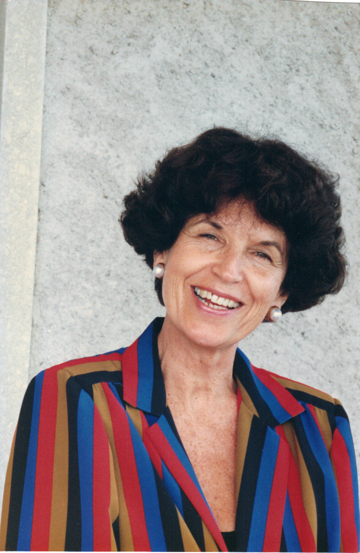 Helena Araujo in Switzerland